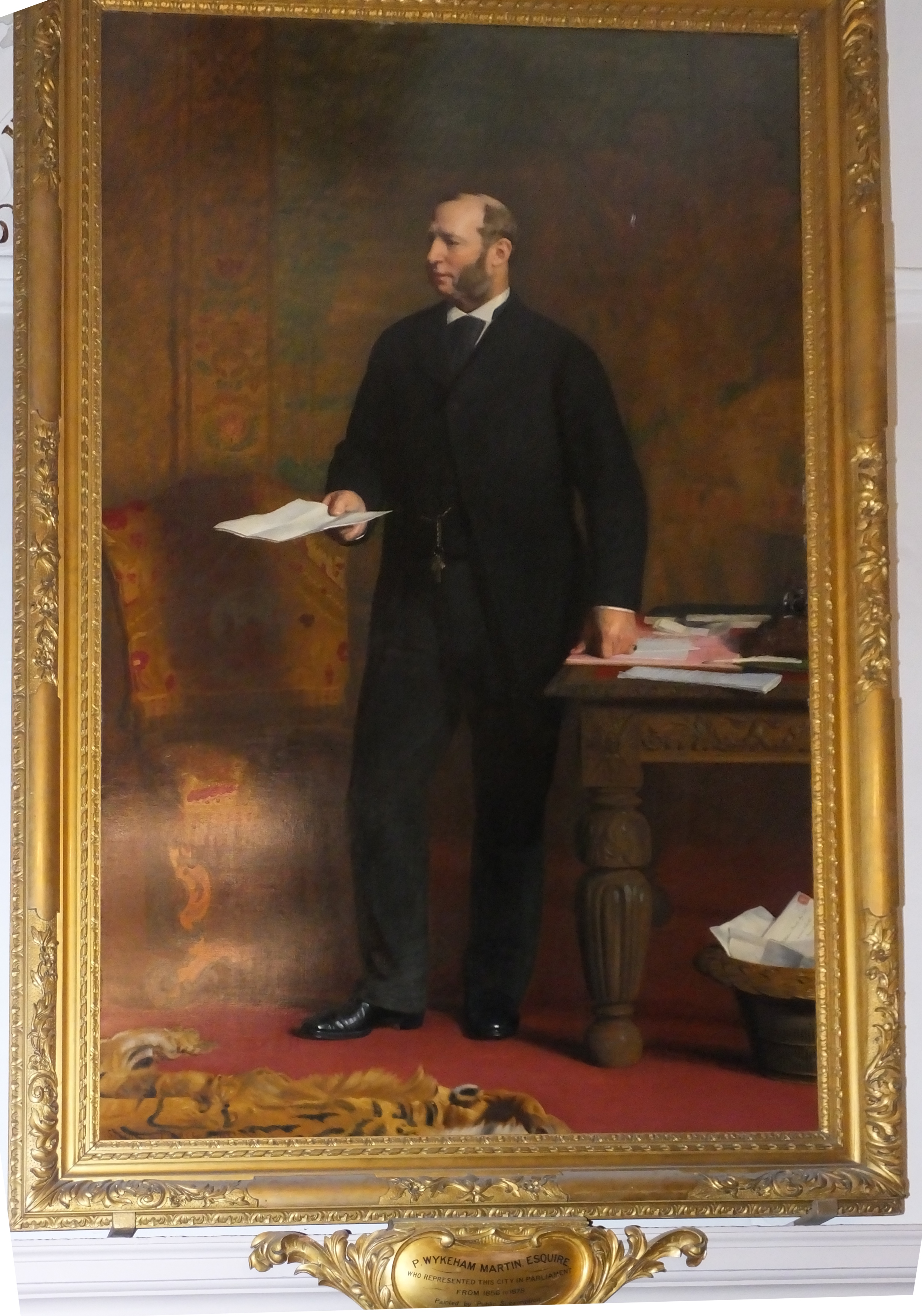 Portraits from the collection of the Guildhall Museum in Rochester, Kent. Philip Wykeham-Martin Philip Wykeham-Martin (18 January 1829 - 31 May 1878) MP 1856-1878